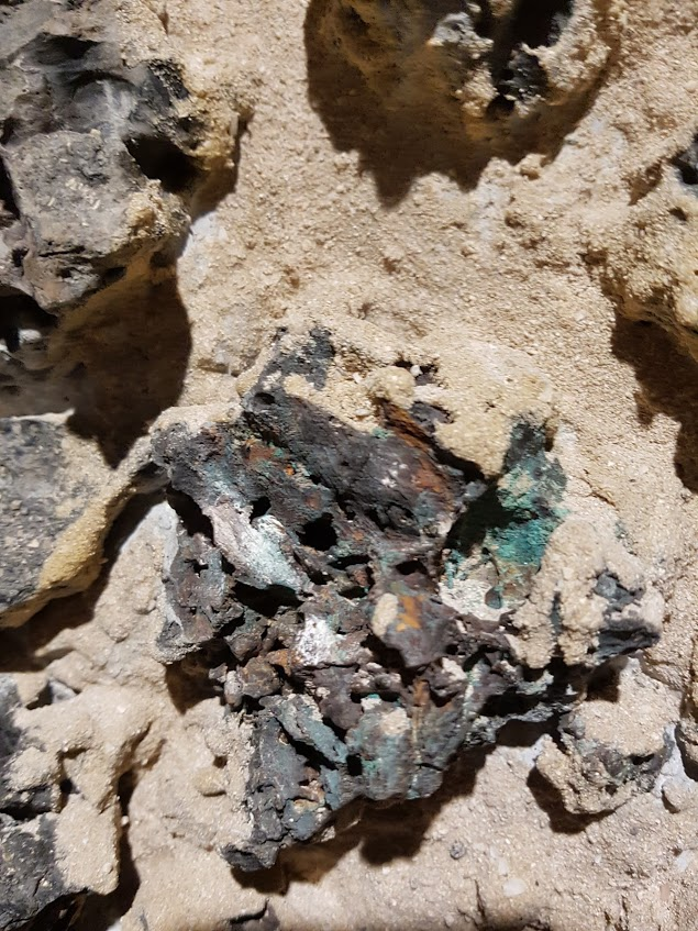 Copper slag recovered from Suruq Al Hadid